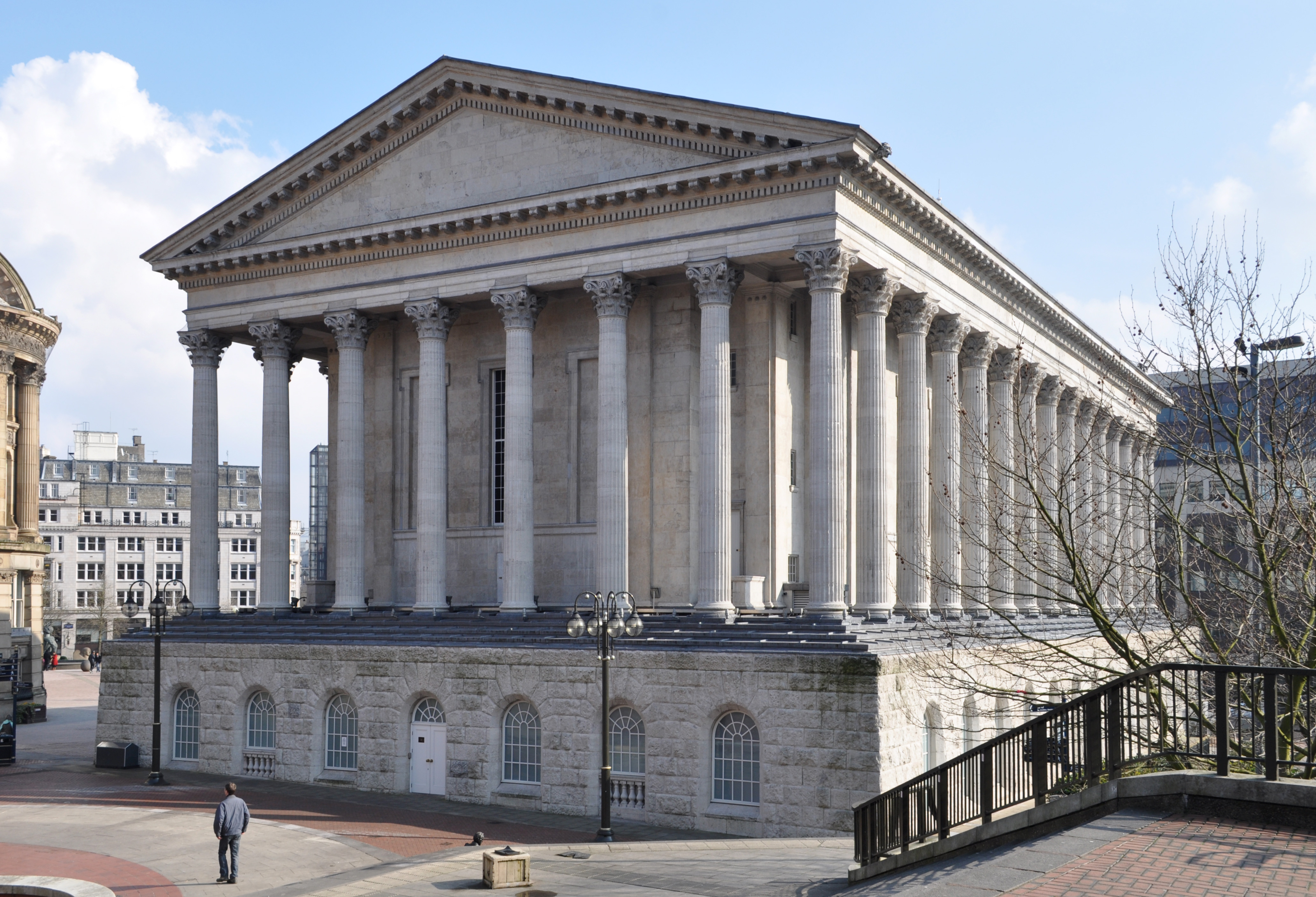 Birmingham Town Hall from Chamberlain Square